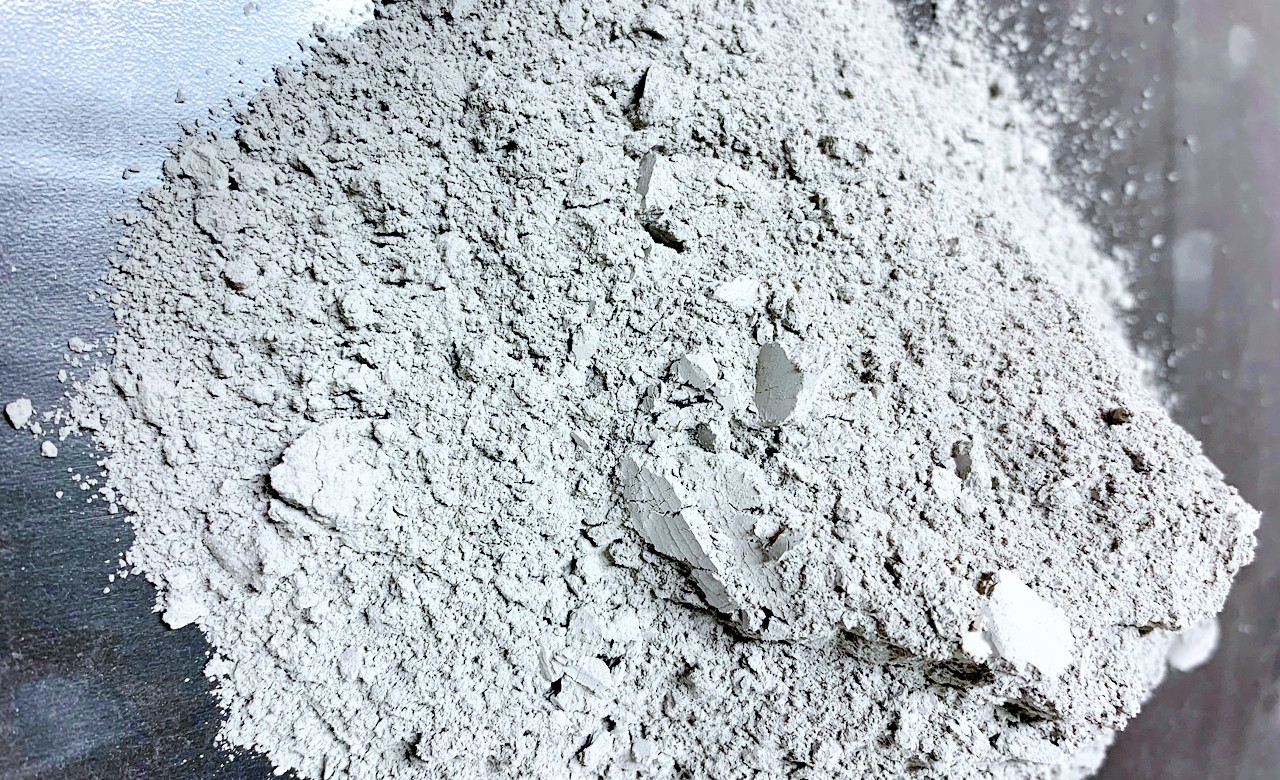 A small pile of Energetically Modified Cement (EMC) processed from Volcanic Rocks sits on a plastic mixing sheet after production in Luleå, Sweden, August 2020. The light colour is characteristic of the source material processed. The overall "Feel" of the processed powder is similar to that of typical bagged Portland Cement